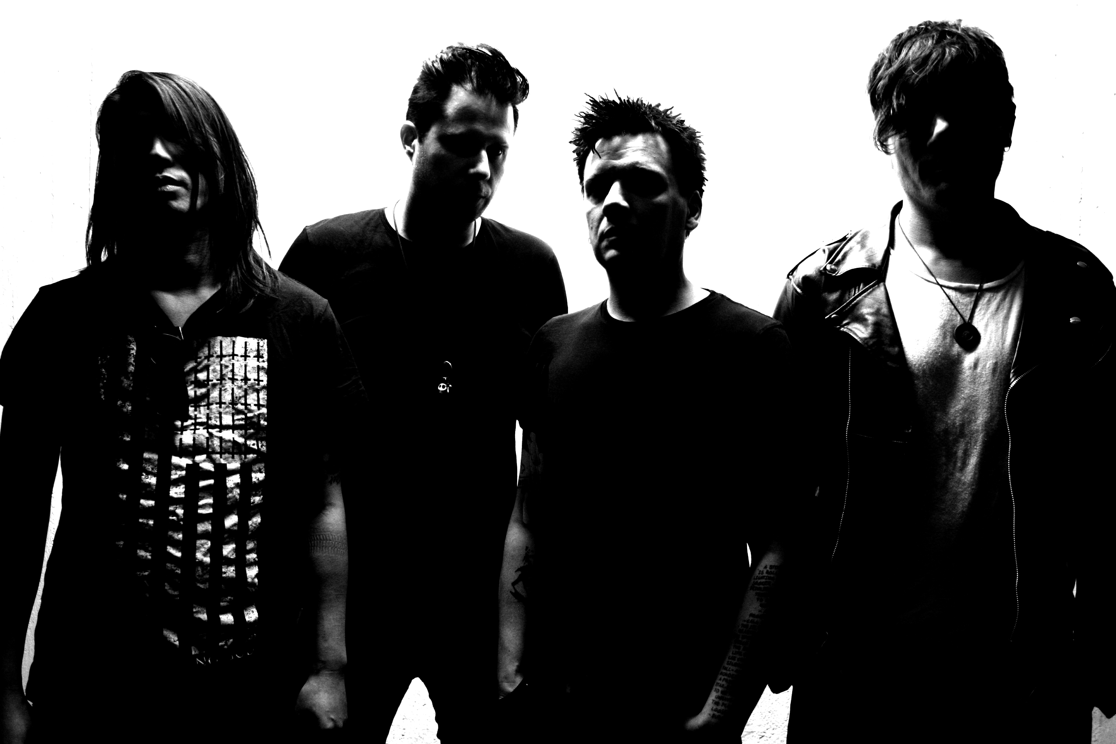 Promo picture for the album Four